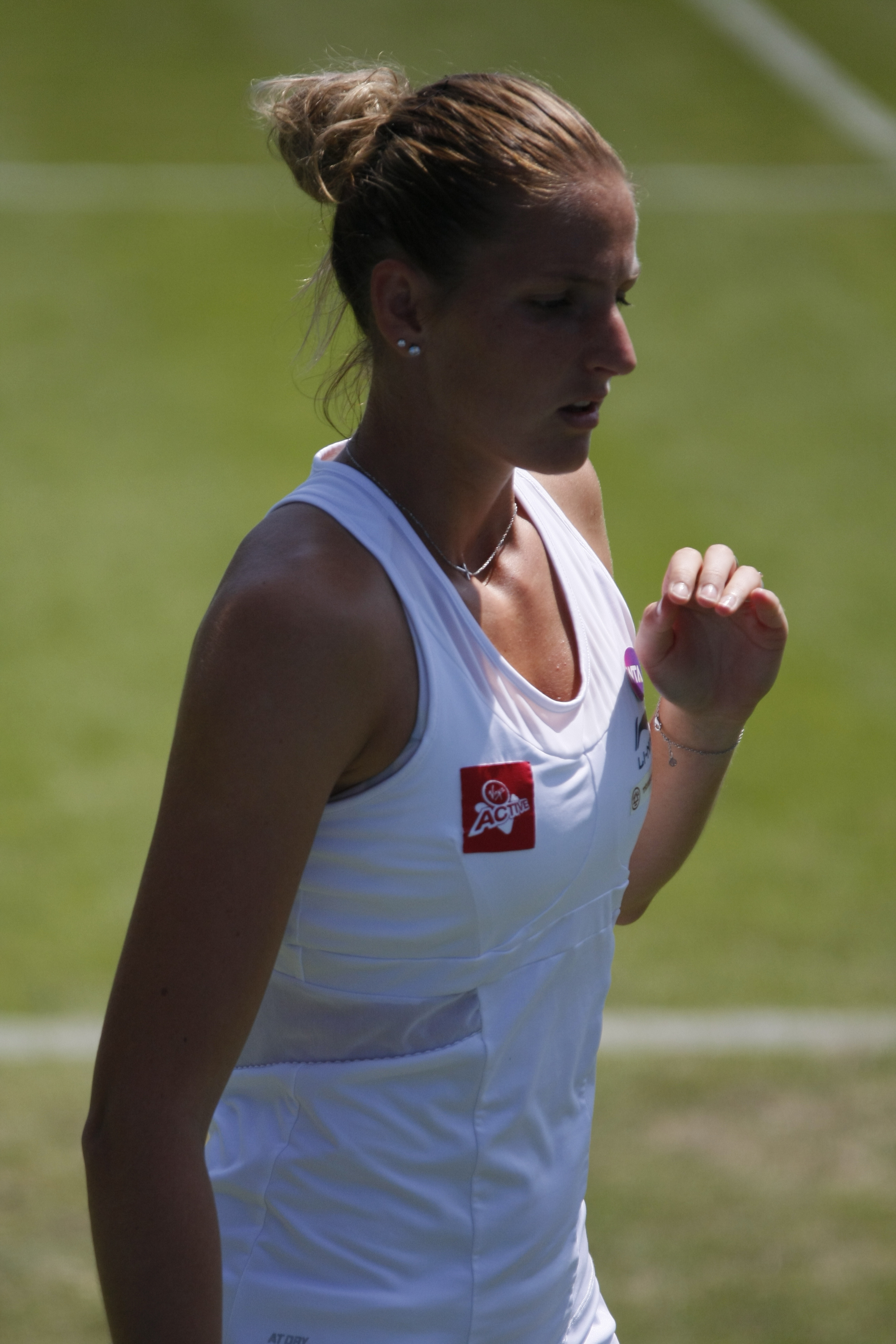 Aegon International Tennis, Devonshire Park, Eastbourne June 2015